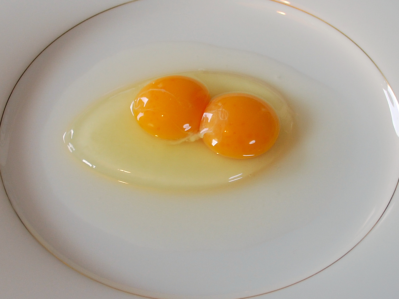 a Chicken egg, Binovular